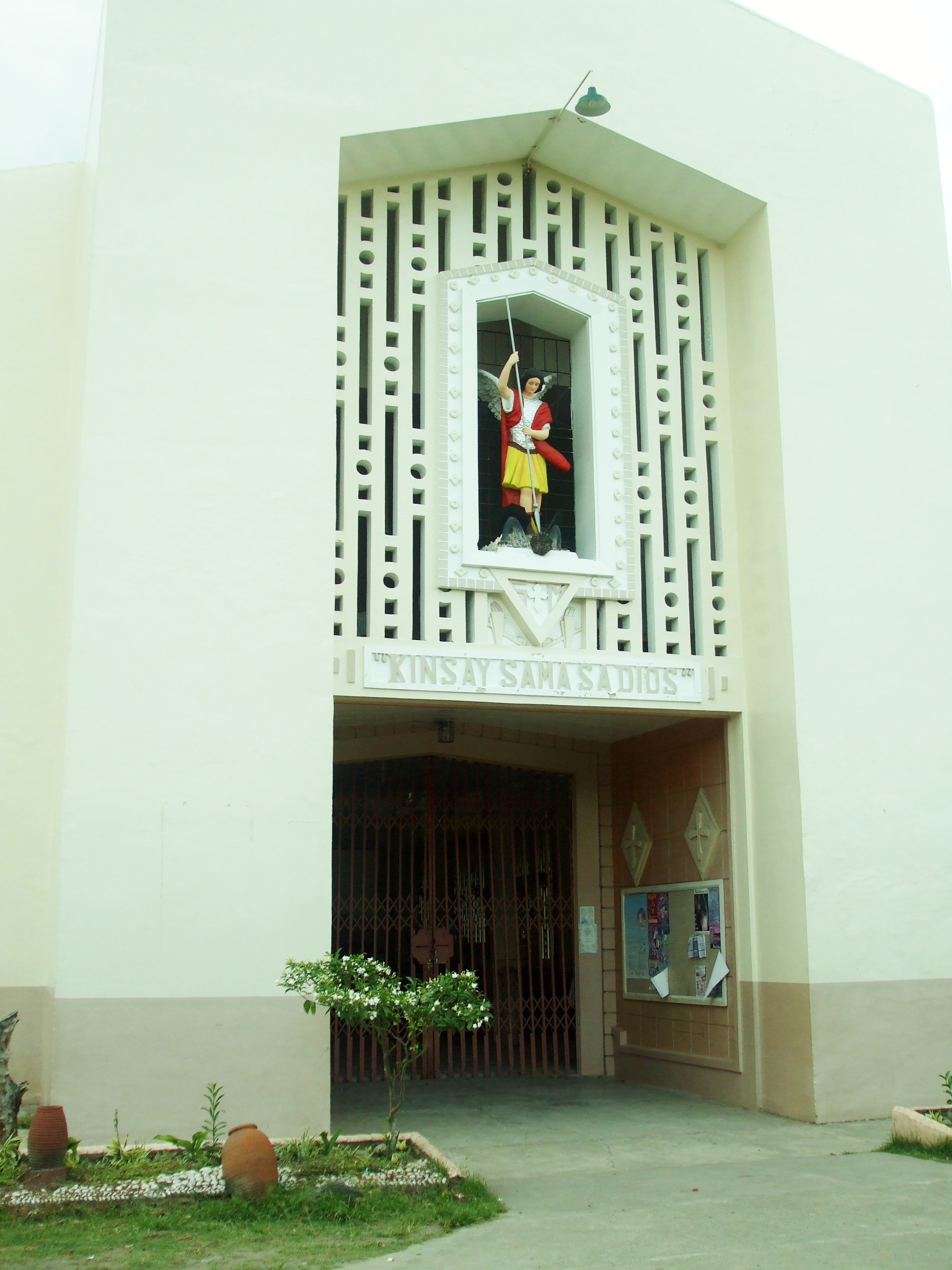 Main entrance of St. Michael Parish Padada